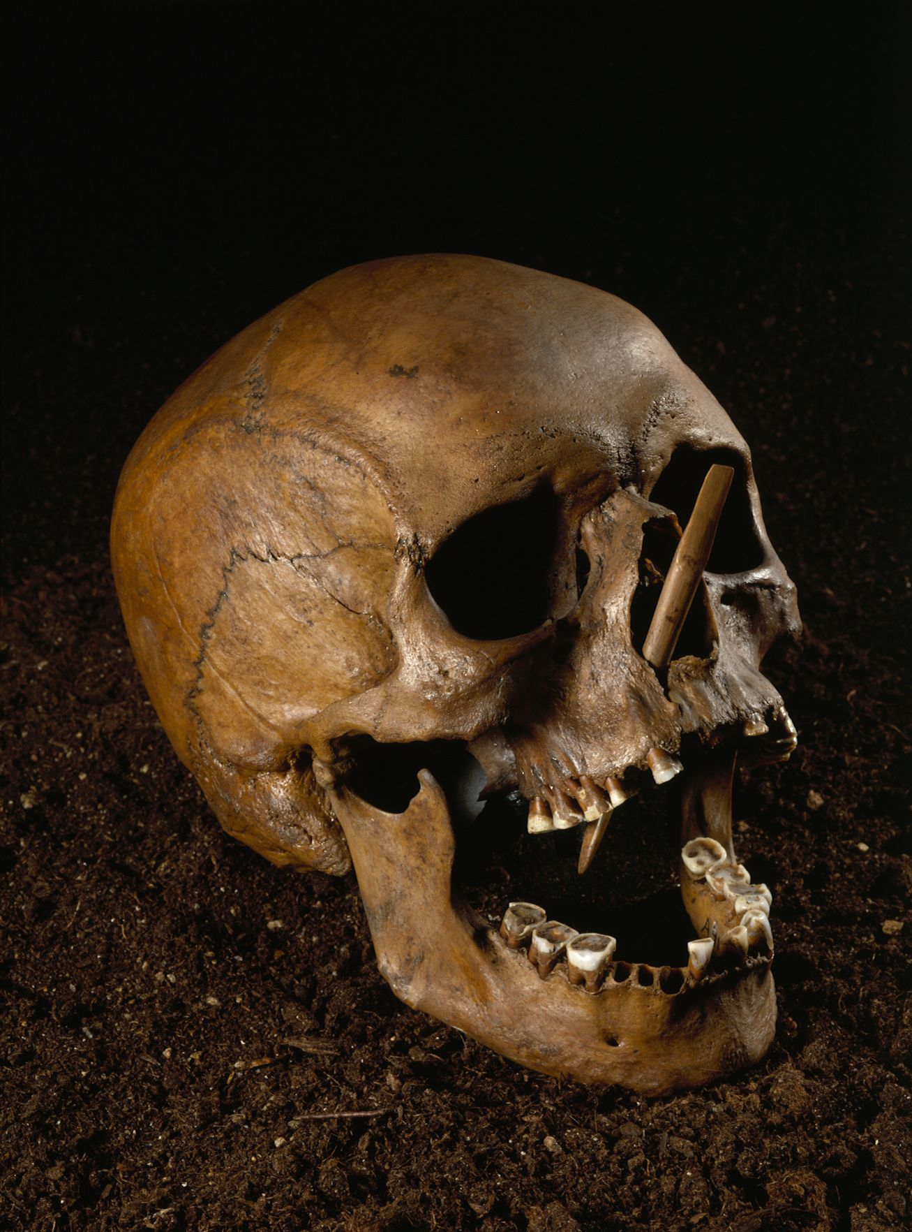 Skull of bog body Porsmose Man with arrow head in the nose.